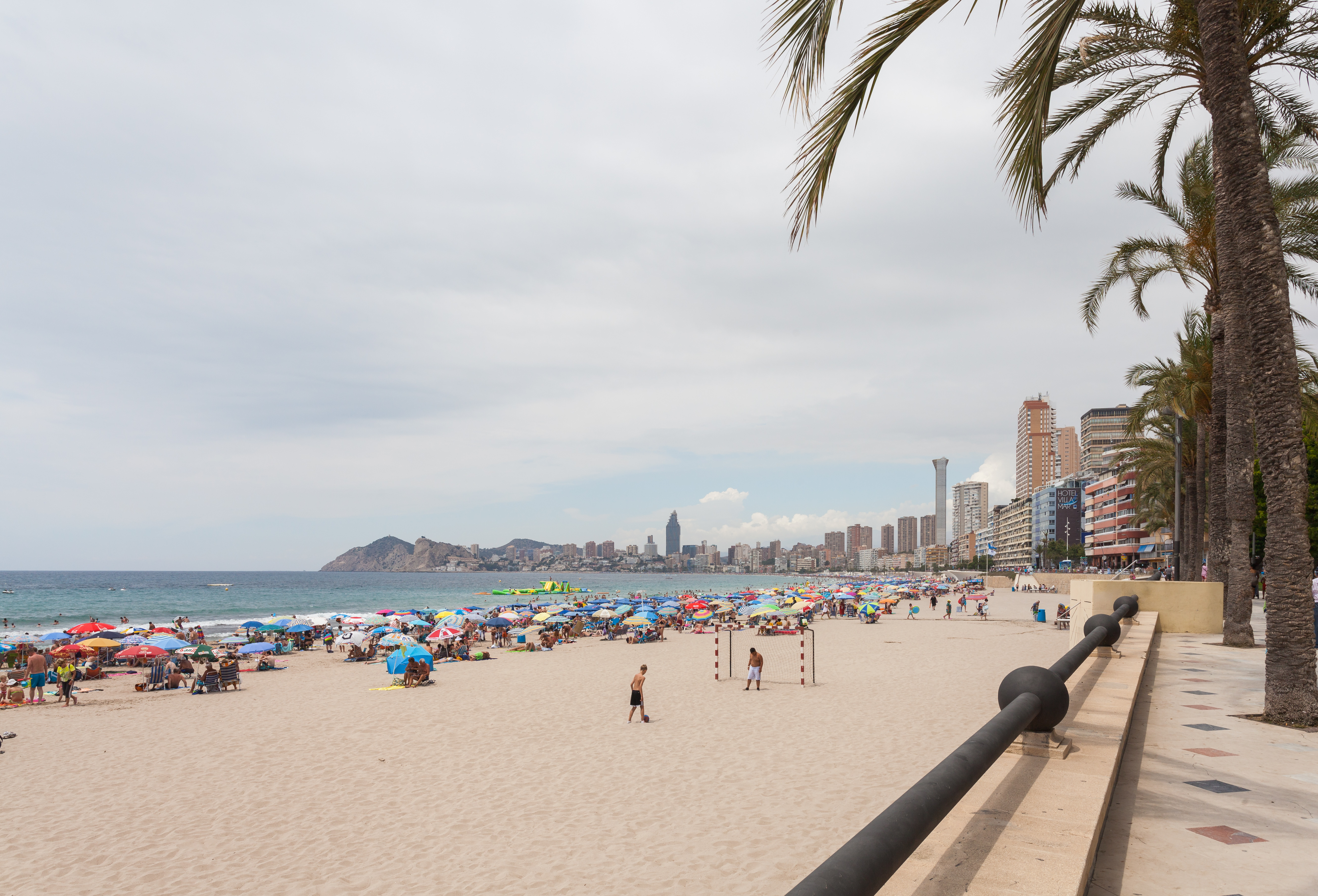 Poniente beach, Benidorm, Spain